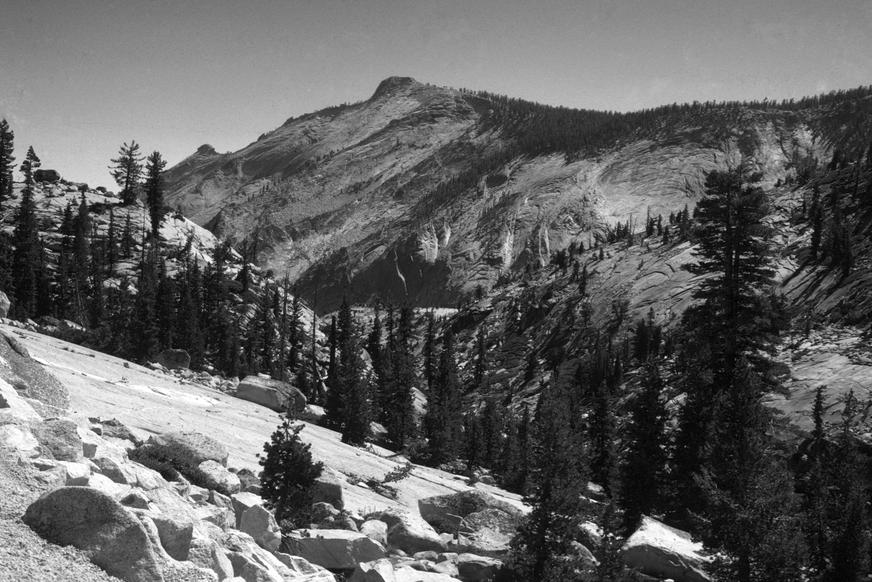 Yosemite National Park.